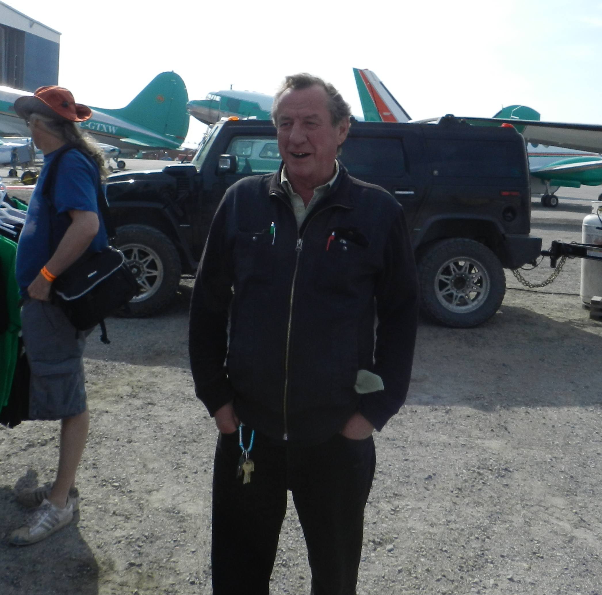 Joe McBryan owner of Buffalo Airways